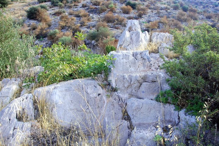 Acropolis of Medeon, Boeotia, Greece